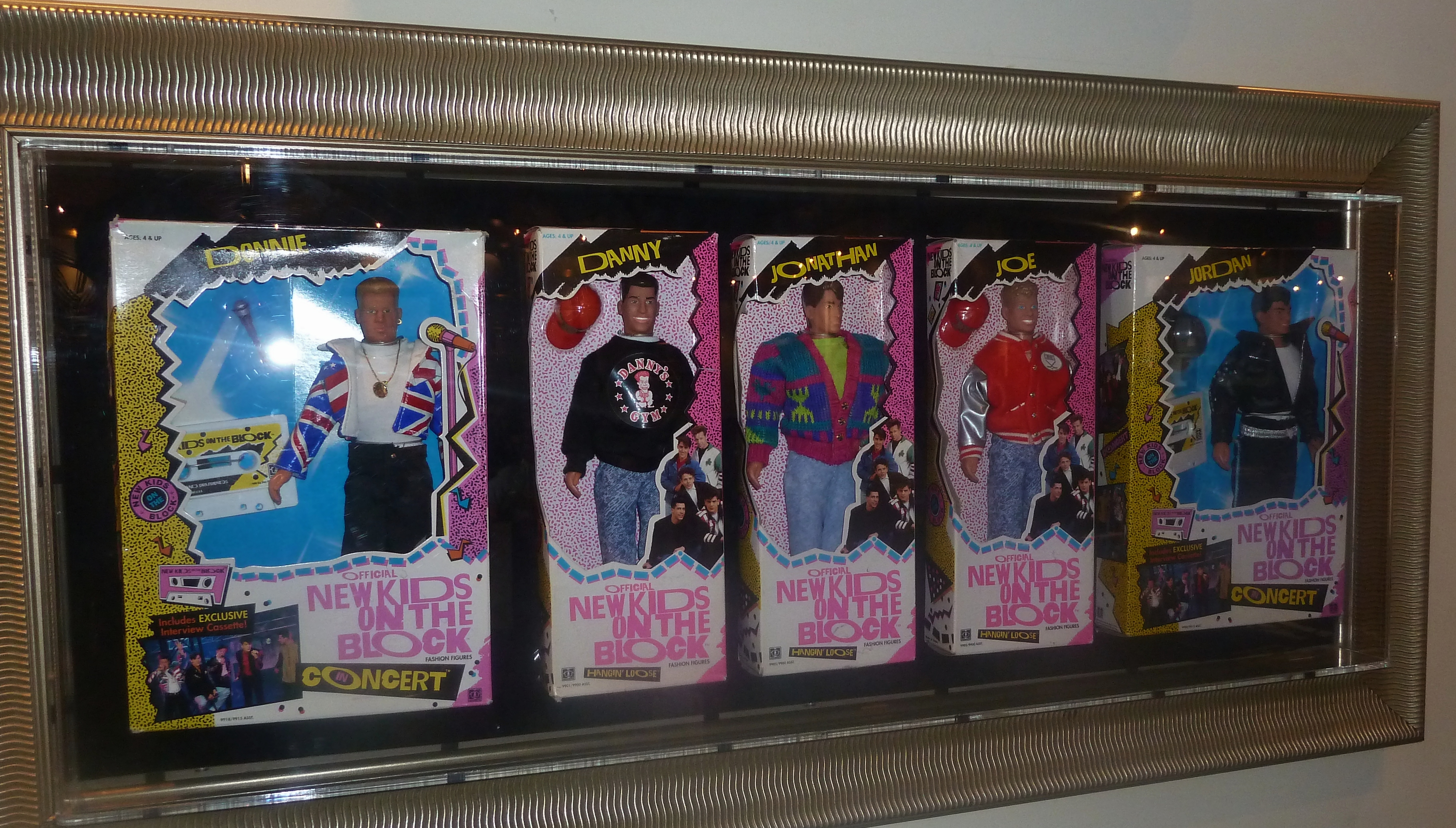 NKOTB Merchandising, dolls produced by Hasbro in 1990, picture taken in Hard Rock Cafe in Boston